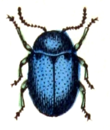 Eumolpus asclepiadeus, from Calwer's Käferbuch, Table 45, Picture 6. Taxonomy was updated to 2008, using mostly the sites Fauna Europaea and BioLib. Please contact Sarefo if the determination is wrong!